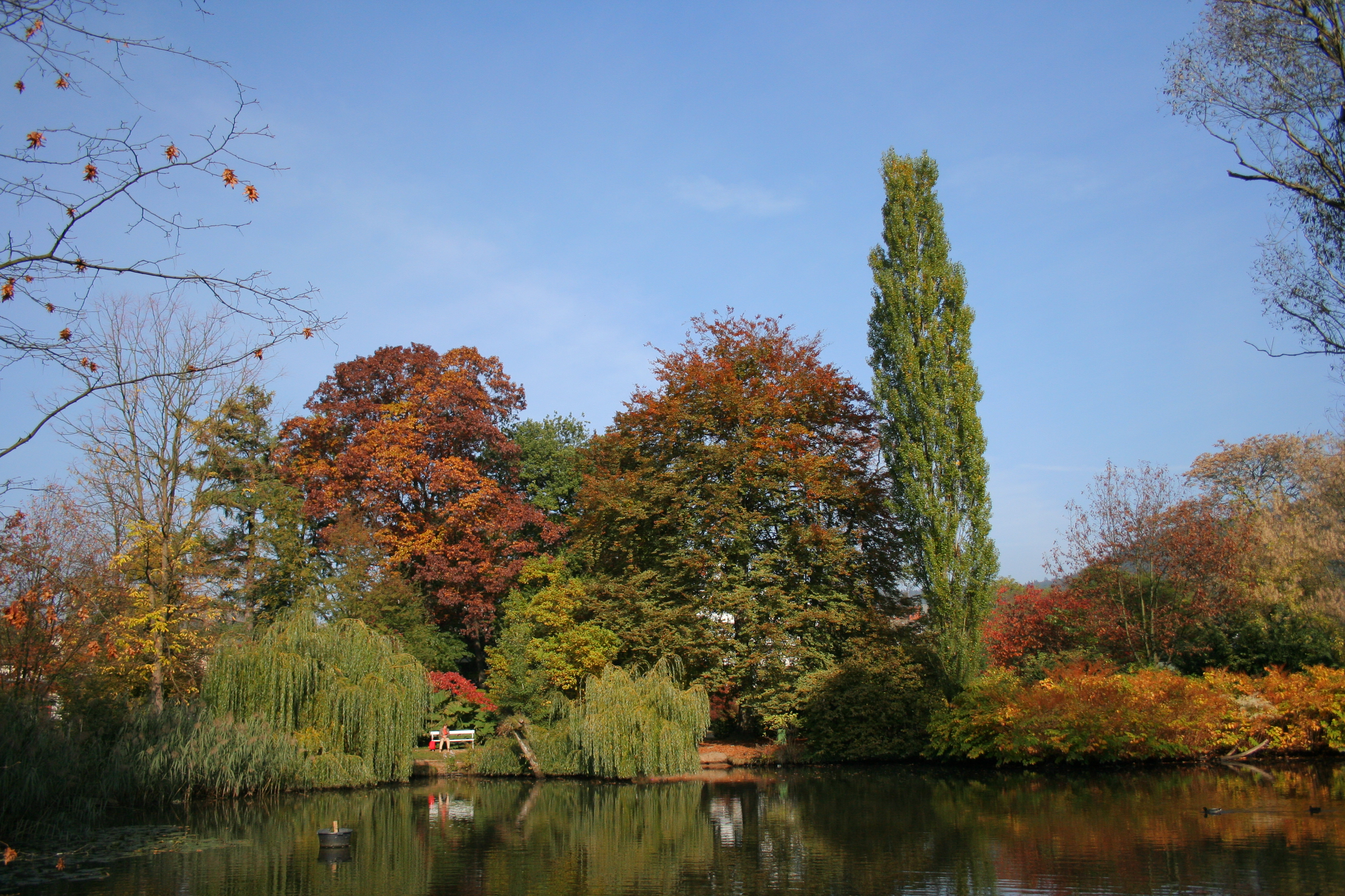 Old botanical garden Marburg